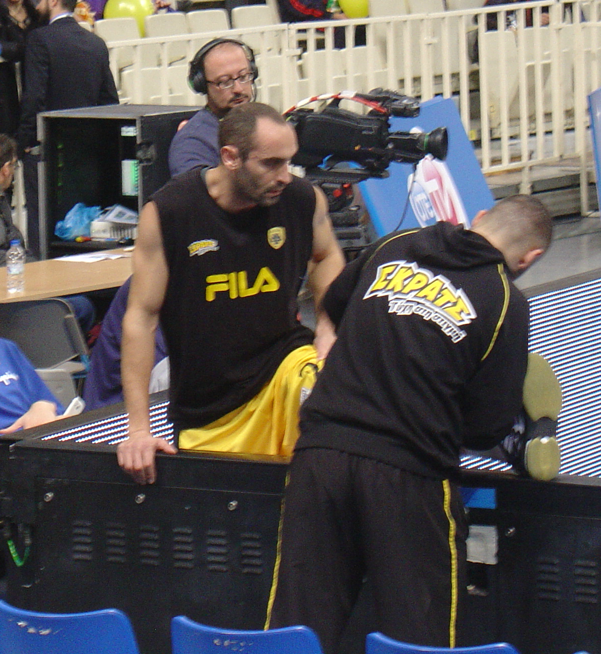 Kalampokis with AEK Athens in 2016